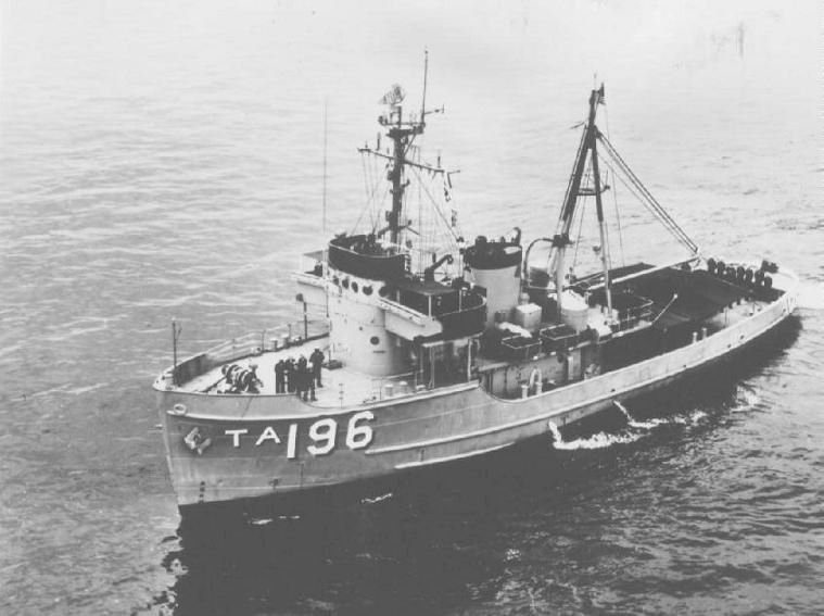 USS Mahopac (ATA-196) underway, date and location unknown. US Navy photo